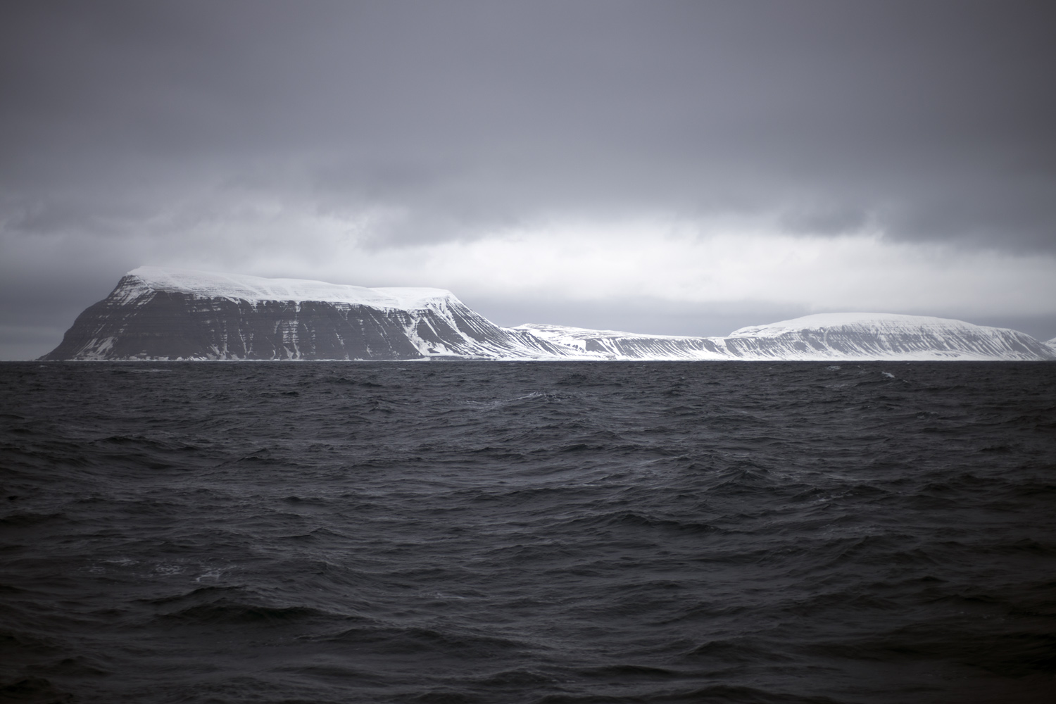 The southernmost point of Hopen island, Kapp Thor, seen from onboard the Norwegian research vessel Lance. The highest point is Iversenfjellet (370 m).